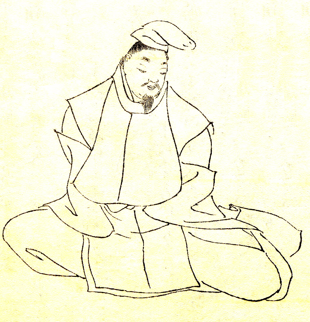 Ōshikōchi Mitsune (凡河内躬恒) was an early Heian administrator and waka poet of the Japanese court.This picture was drawn by Kikuchi Yosai（菊池容斎） who was a painter in Japan.